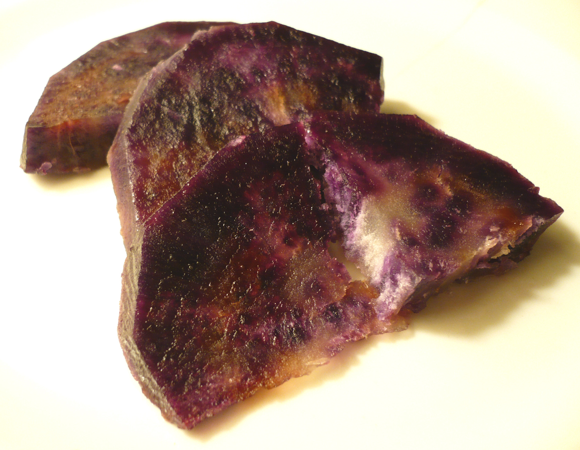 Steamed sliced Hawaiian ube (purple yam). Photo taken in Kent, Ohio with a Panasonic Lumix digital camera (model DMC-LS75). Ube purchased from a Cleveland, Ohio Chinese grocery store.